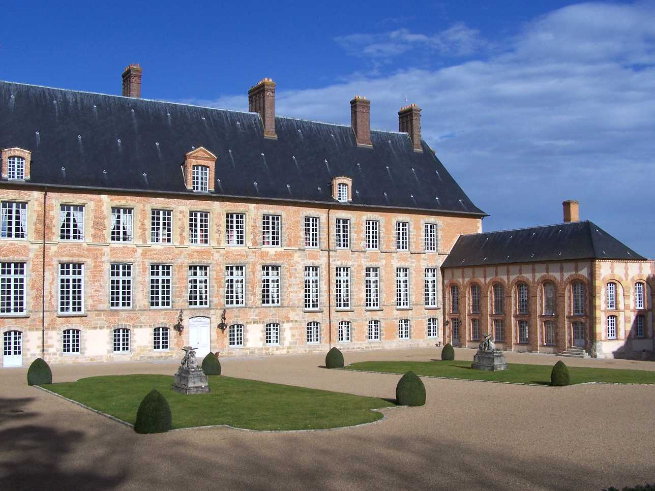 Castle of Les Mesnuls (Yvelines, France)